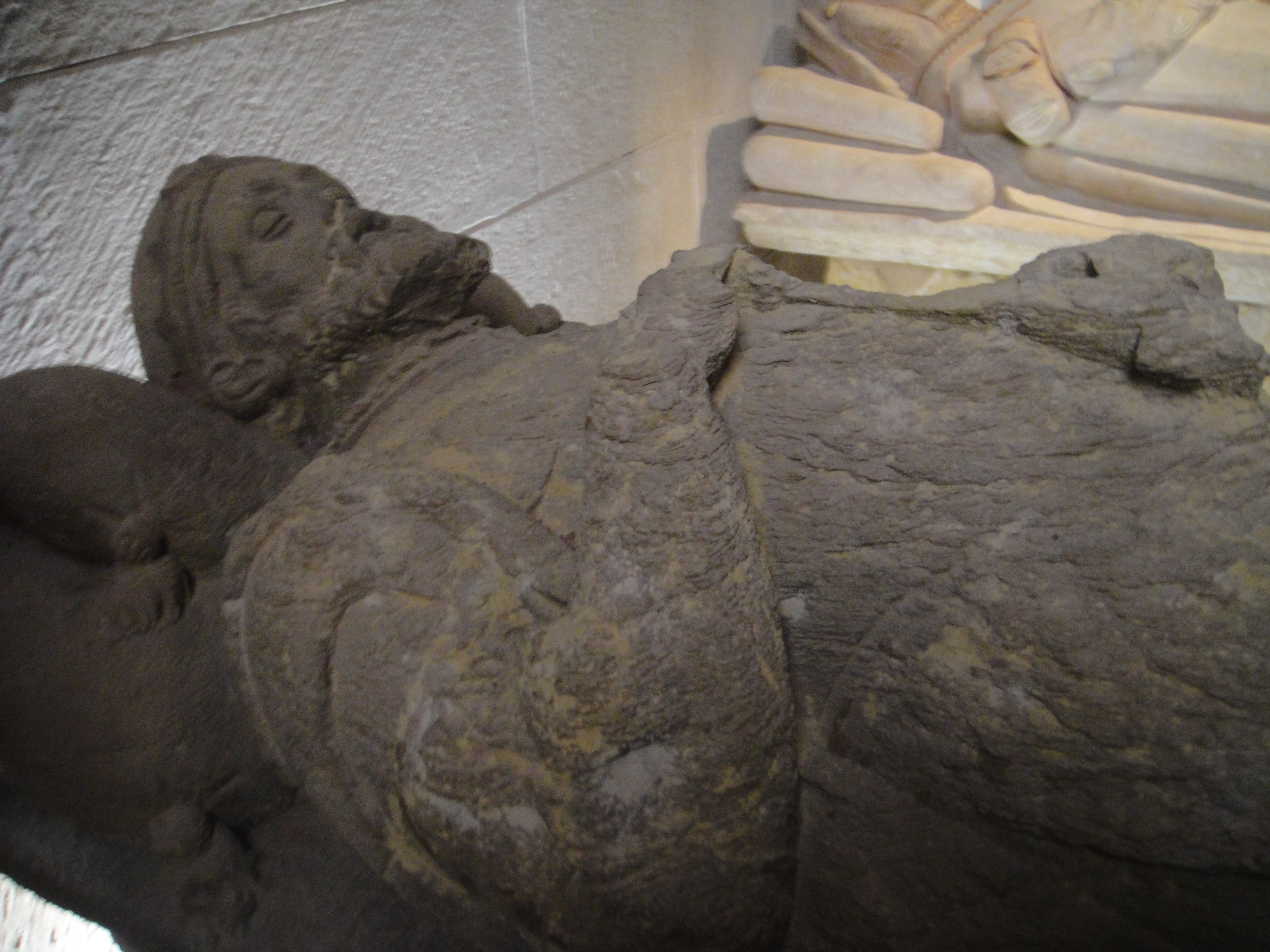 Monastery of Santa María la Real of Nájera.